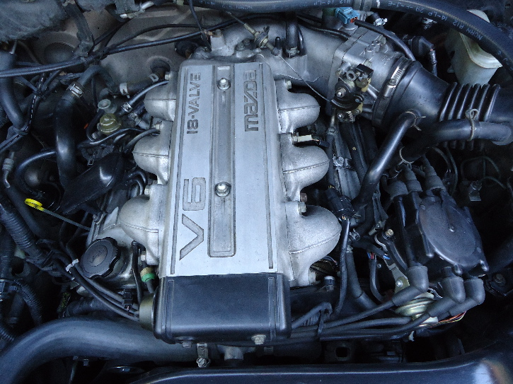 A 1990 Mazda MPV Mini Van V6 Motor